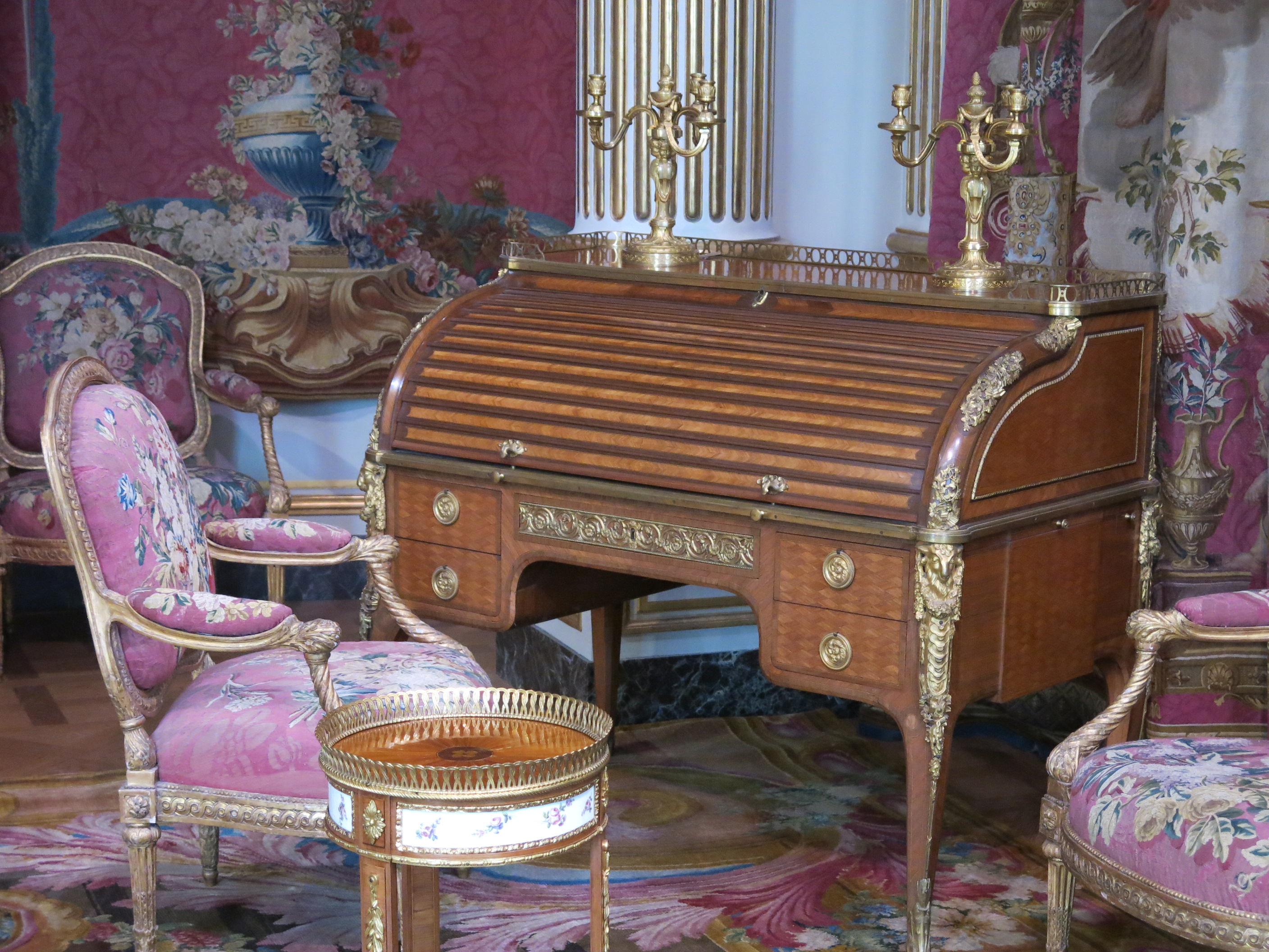 "King of Sardinia" Cylinder desk. Pink straight-backed armchairs (1768). Parade room of the hotel de Chevreuse. Louvre museum (Paris, France).